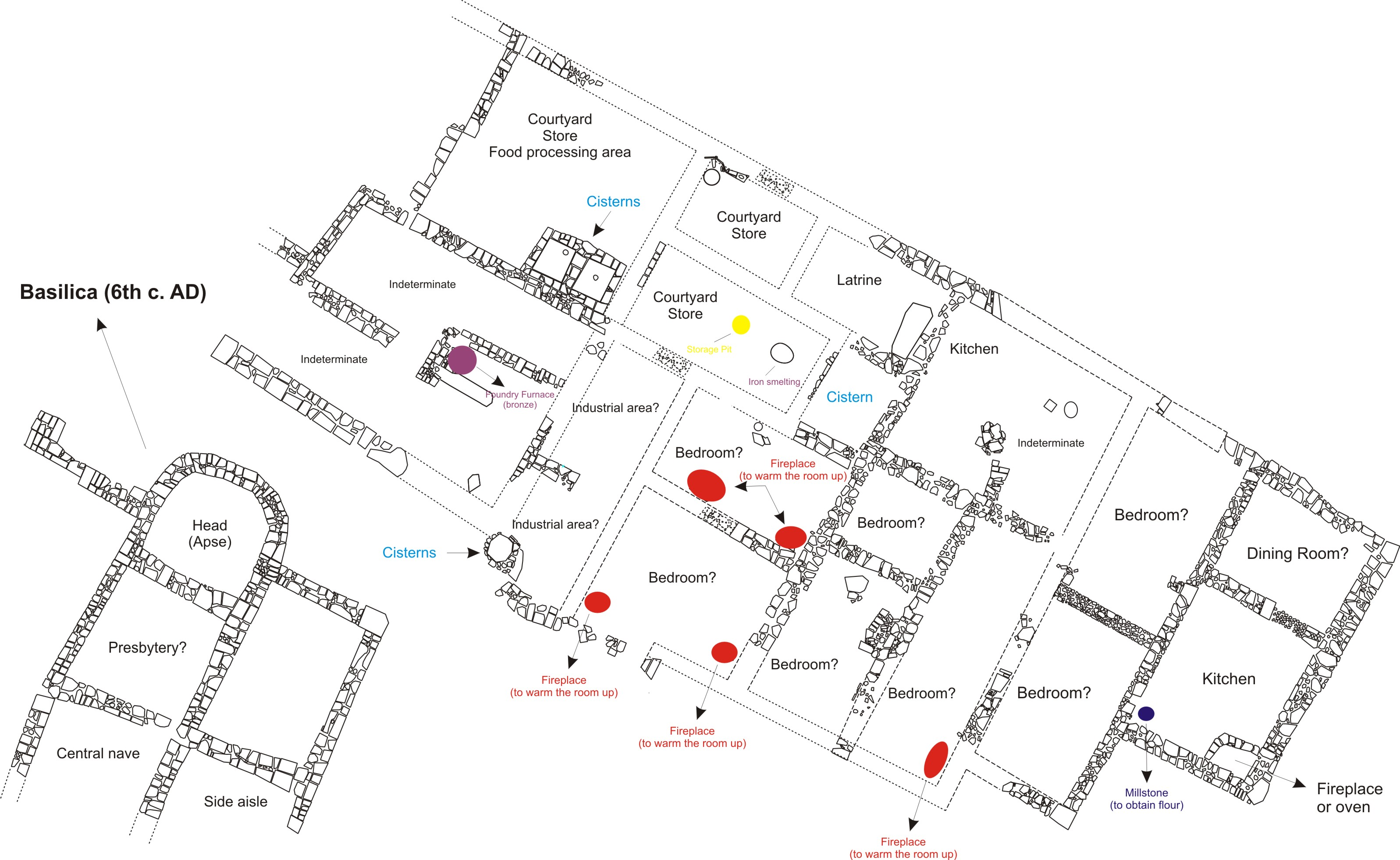 Map of the buildings from the eccesiastical complex exposed between 2008 and 2010